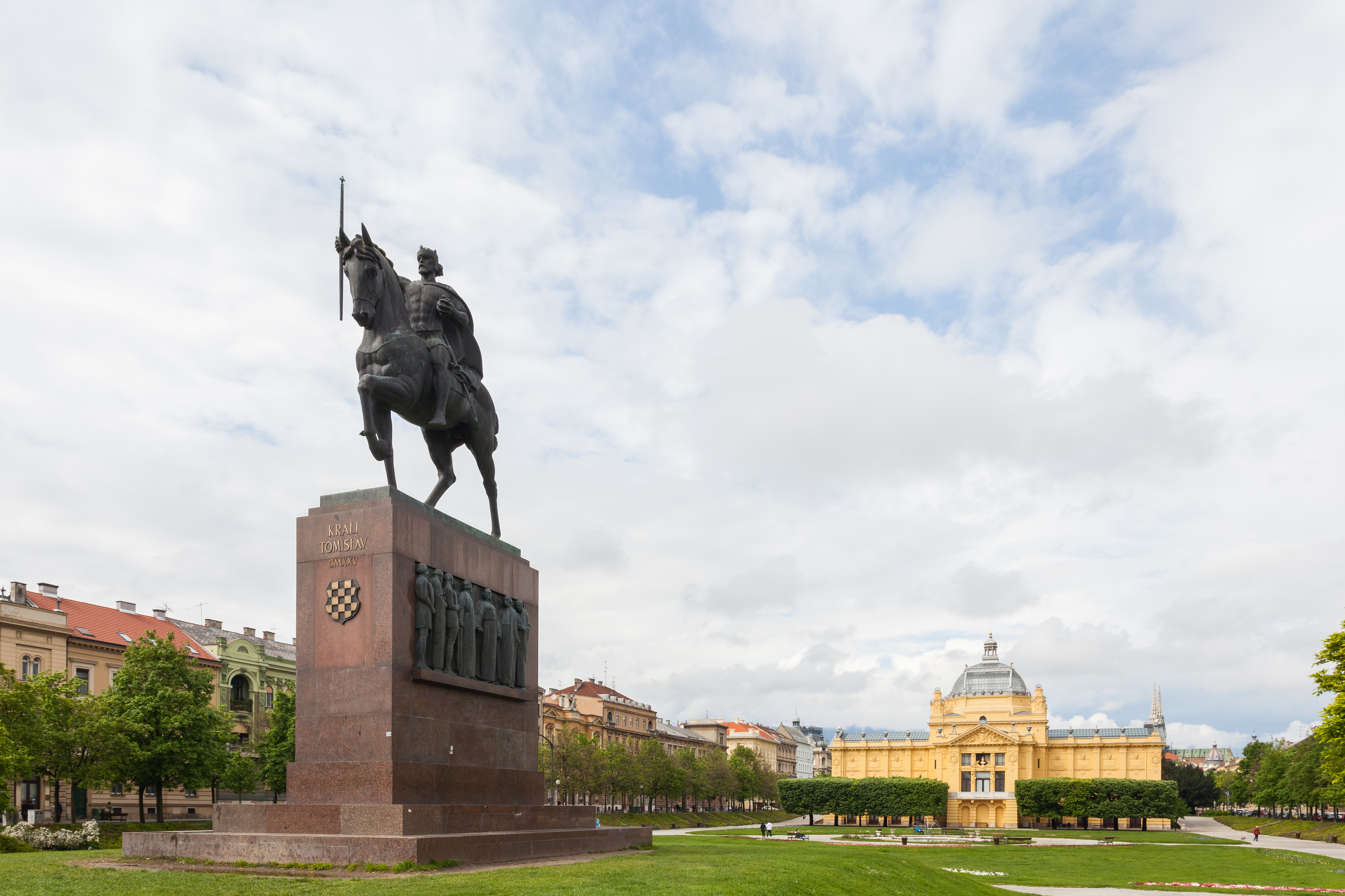 Statue of King Tomislav of Croatia, Zagreb, Croatia